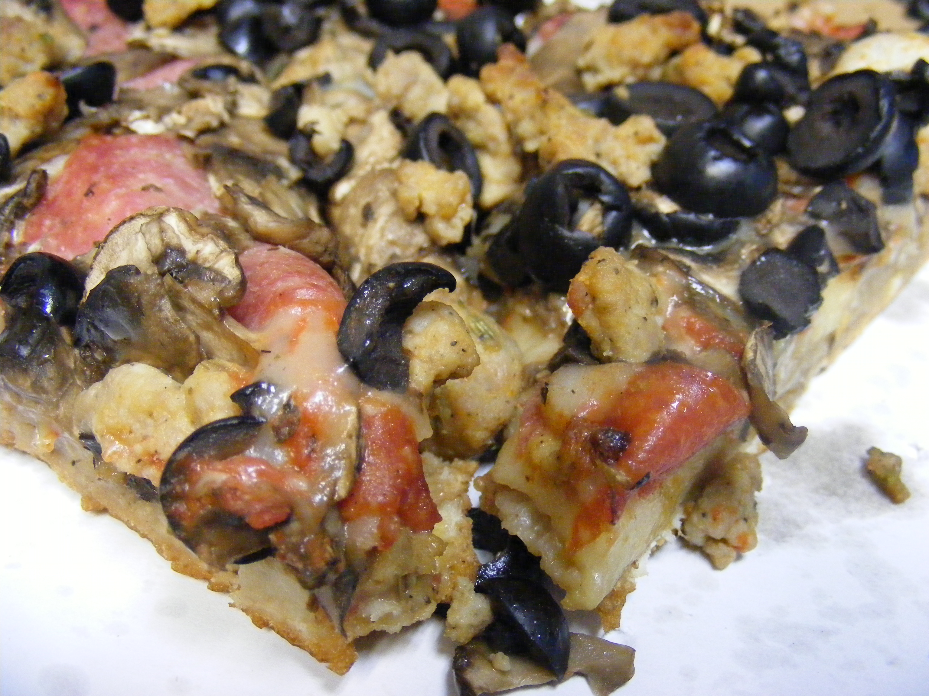 Pizza, deliciously close up. The restaurant titled this pizza the "Crow's Nest." Toppings: Pepperoni, Italian Sausage, Mushrooms, Salami, Garlic, Black Olives